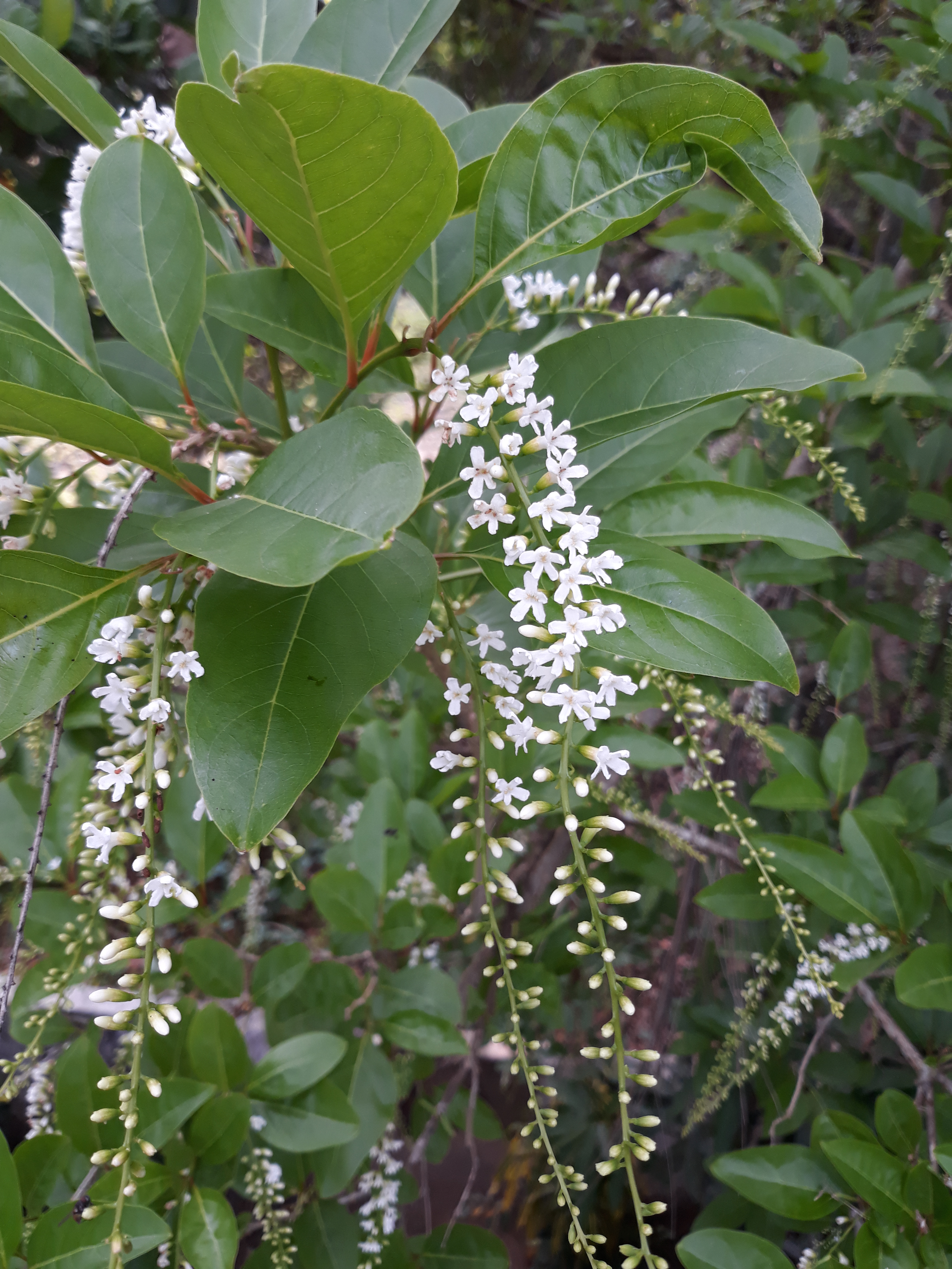 Citharexylum spinosum. Tree is found in Chazhur, Thrissur, Kerala. Tropical angiosperm species with white flowers in recemose inflorescence.